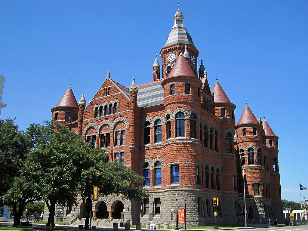 Downtown Dallas, Texas.